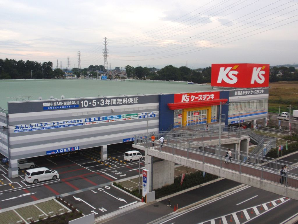 K's Denki store next to Peony Walk Higashimatsuyama Shopping Center in Higashimatsuyama-city, Saitama, Japan